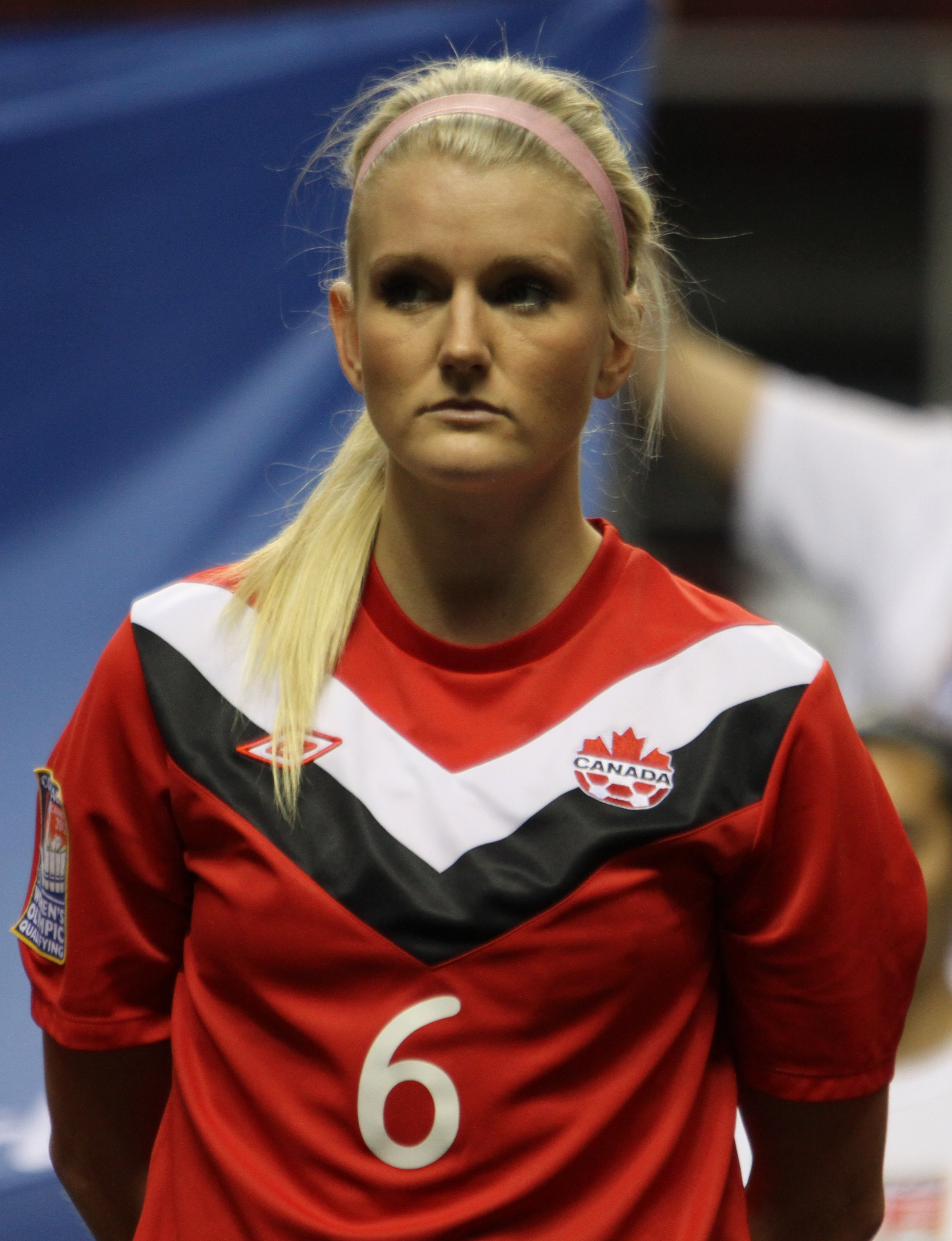 Kaylyn Kyle during Canadian anthem @ Olympic Qualifying in Vancouver, CA.